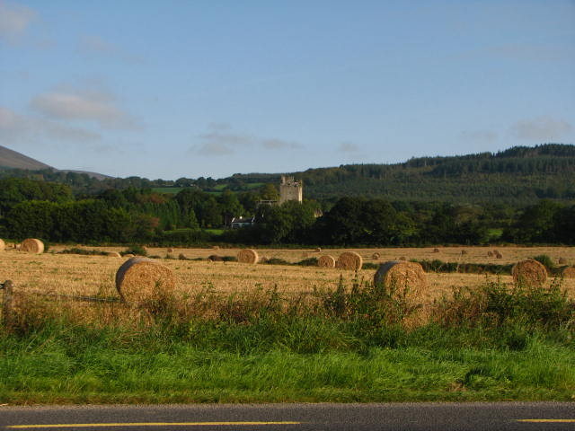 Kilcash Castle This picture was taken from the main road toward the castle.